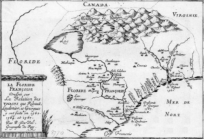 Floride_francaise_Pierre_du_Val.